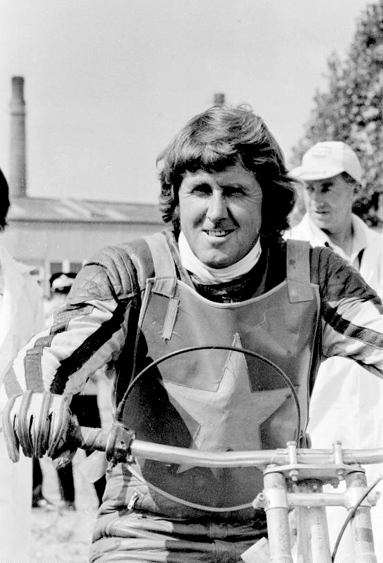 One of the all-time great Speedway riders, Barry Briggs seen here riding for the Wimbledon Dons.